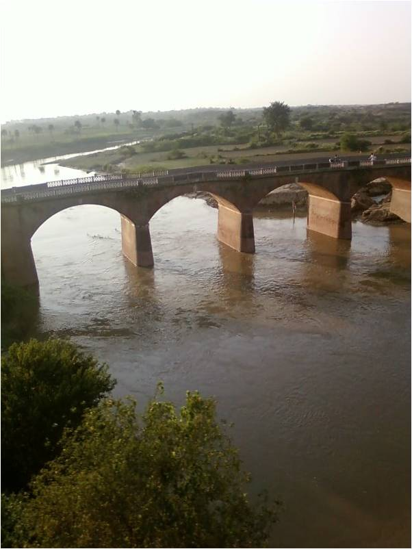 A river in Jalaun District in U.P.